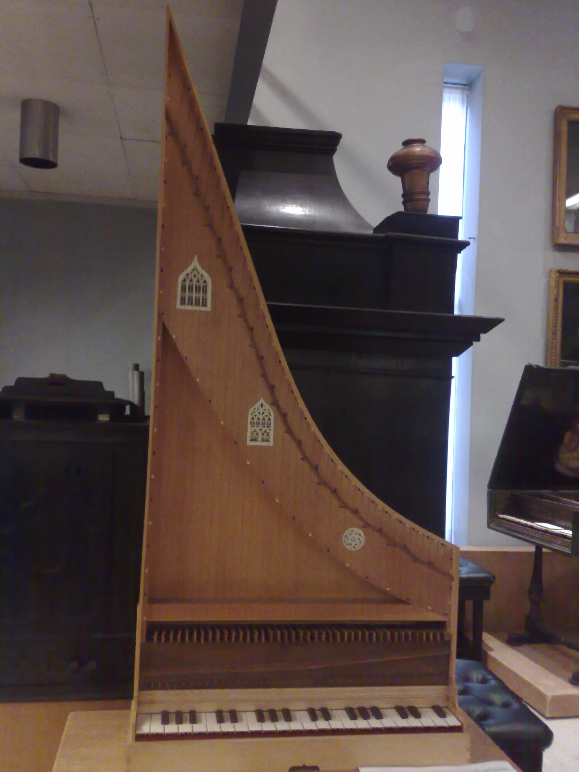 1973 replica of clavicytherium (c.1480s), Royal College of Music Museum of Music In the museum of the Royal College of Music in London, this is a working replica of the c. 1480s clavicytherium (upright harpsichord) elsewhere in the museum, thought to be the world's oldest surviving stringed keyboard instrument. Built in 1973, this replica is considerably less decorated than the original, but gives a good idea of how the scholars believe the original would have looked, worked and sounded. It's hard to see from the photo, but the strings pass up the front of the instrument, over the three window-like soundhole rosettes. Basically, the instrument shows its origins as like a keyed psaltery, more than later harpsichords probably do. The museum curator played the replica for us - as expected, it sounded like a harpsichord, but (a) a bit more "direct" as the sound is projected straight out at you, and (b) a little more "ethereal" as the strings are not damped when the notes are released, so they continue to ring.